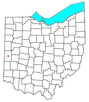 Locator map of the unincorporated community of Stelvideo in Darke County, Ohio, United States.